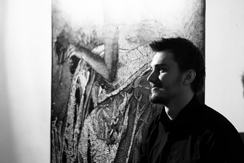 The linocuts exhibition of a Polish graphic artist Kamil Smala in the gallery "Fra Angelico", Katowice, 15 December 2009